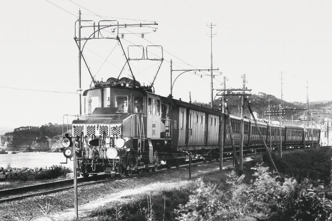 Train of the Italian State Railway, Ferrovie dello Stato (FS), with thre-phase locomotive series E.550 with 2000 hp at Albisola on the railway Genoa-Savona with the typical for Italy Centoporte compartment cars that differed from the compartment cars Prussian design in the way that These usually had a central aisle and closed bellows transitions from car to car.